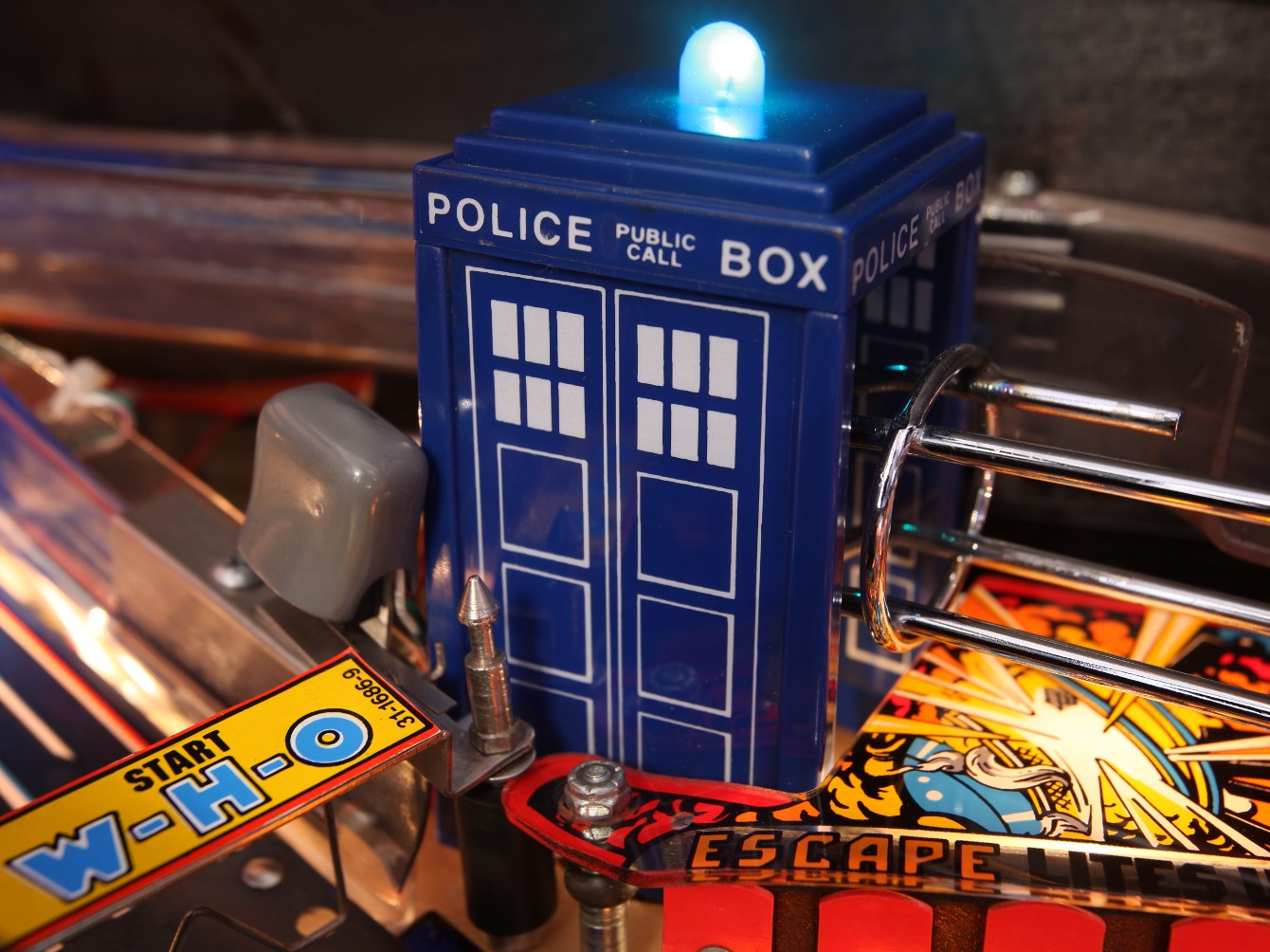 Tardis that is located in the playfield of the Doctor Who pinball